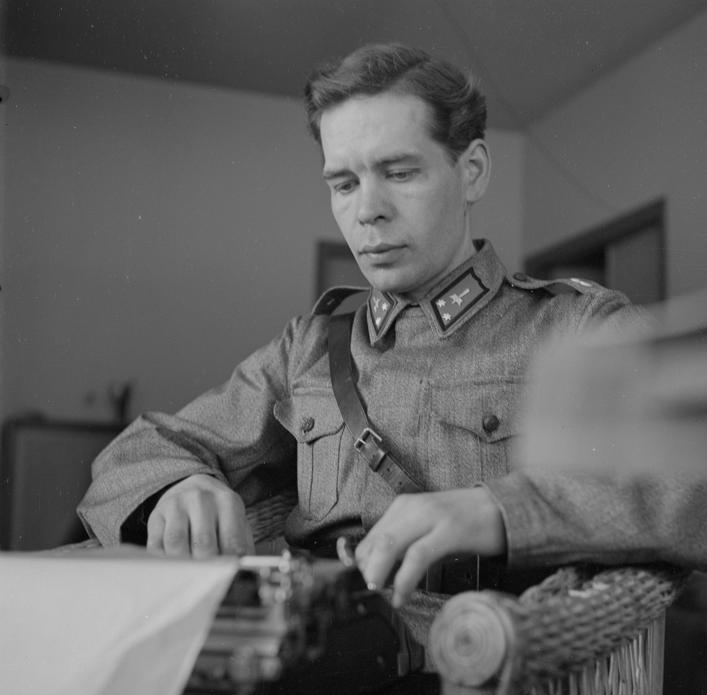 Photograph of the Finnish writer Riku Sarkola (1910–1970) during World War II as a war correspondent.